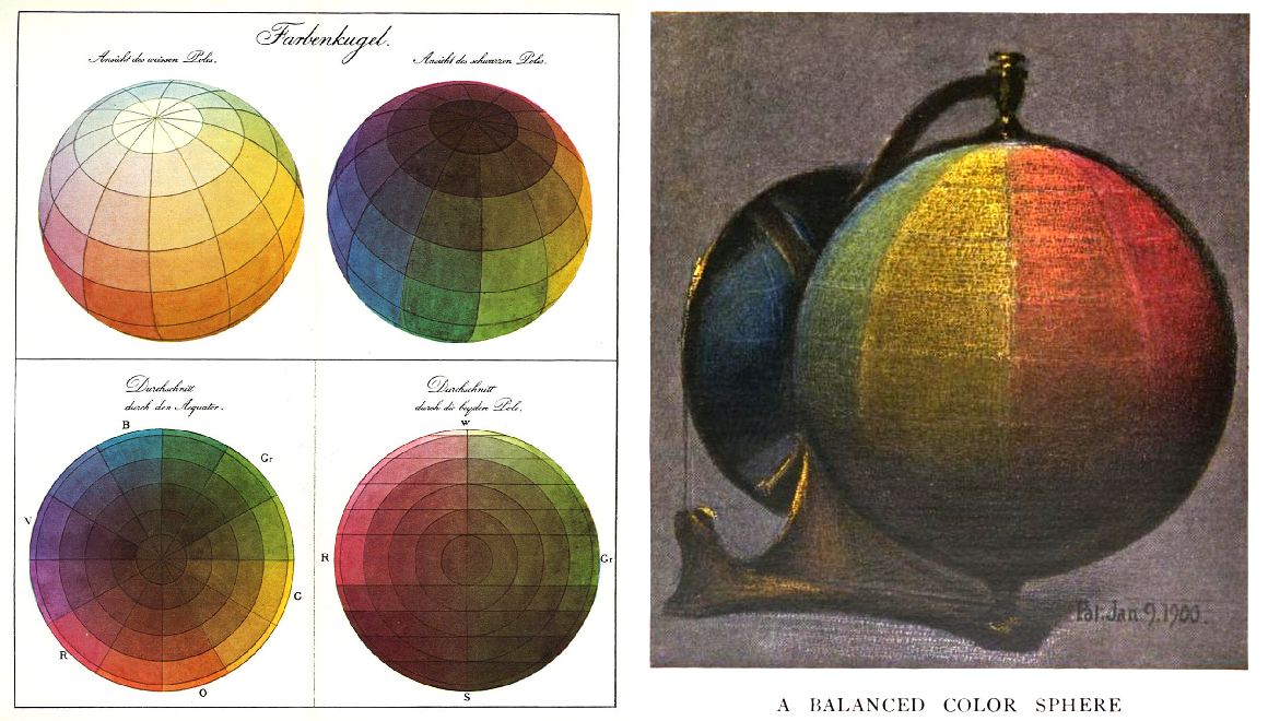 Philipp Otto Runge’s Color Sphere (Die Farbenkugel). The top two images show the surface of the sphere, while the bottom two show horizontal and vertical cross sections. Taken from